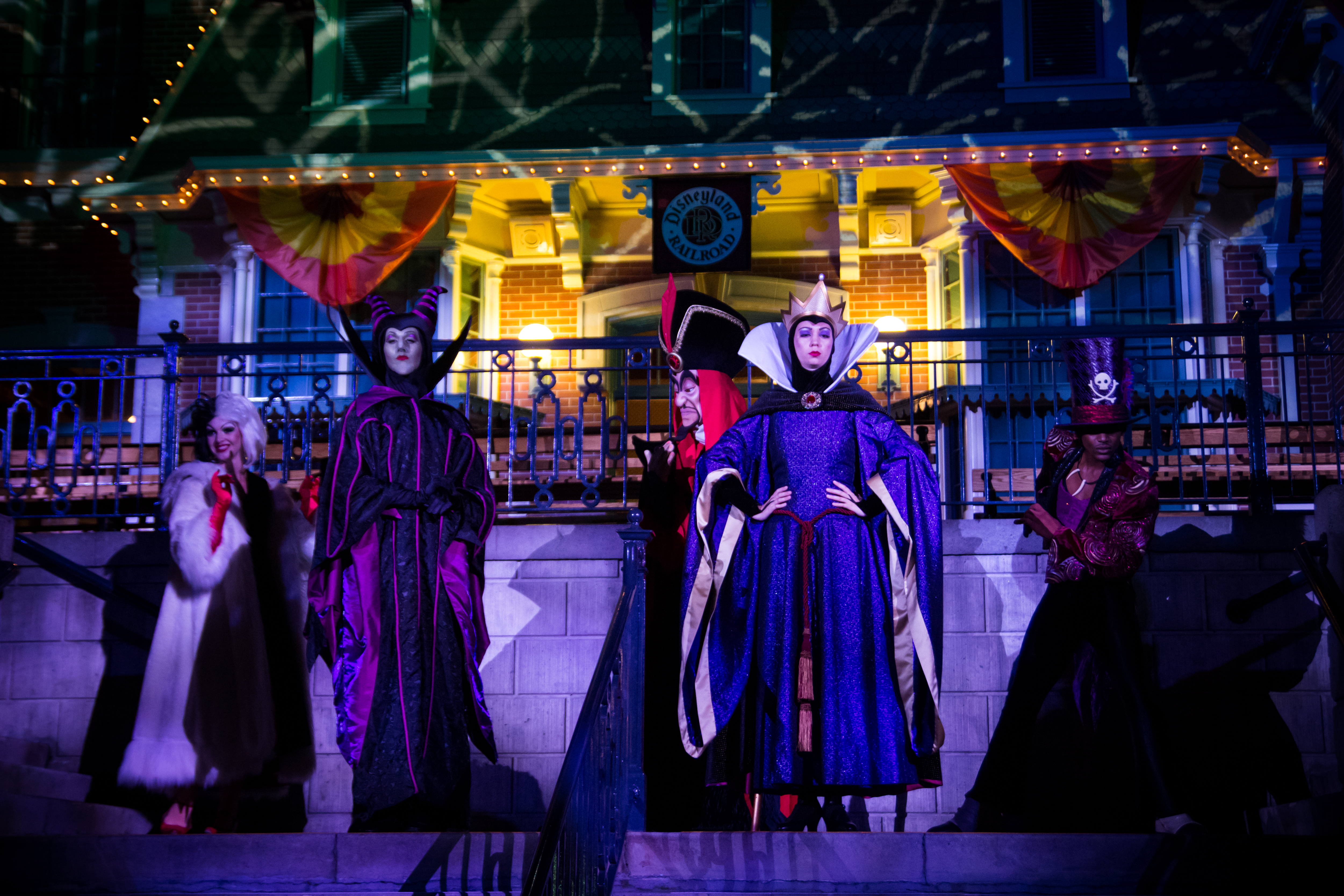 The awesome villains (including Maleficent!!) hanging out at the Main Street railroad station.